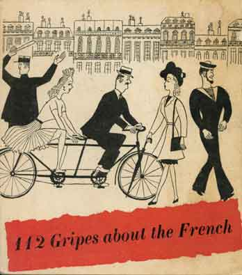 Cover of the booklet "112 Gripes about the French" distributed to the GIs upon their arrival in France in the end of 1945.